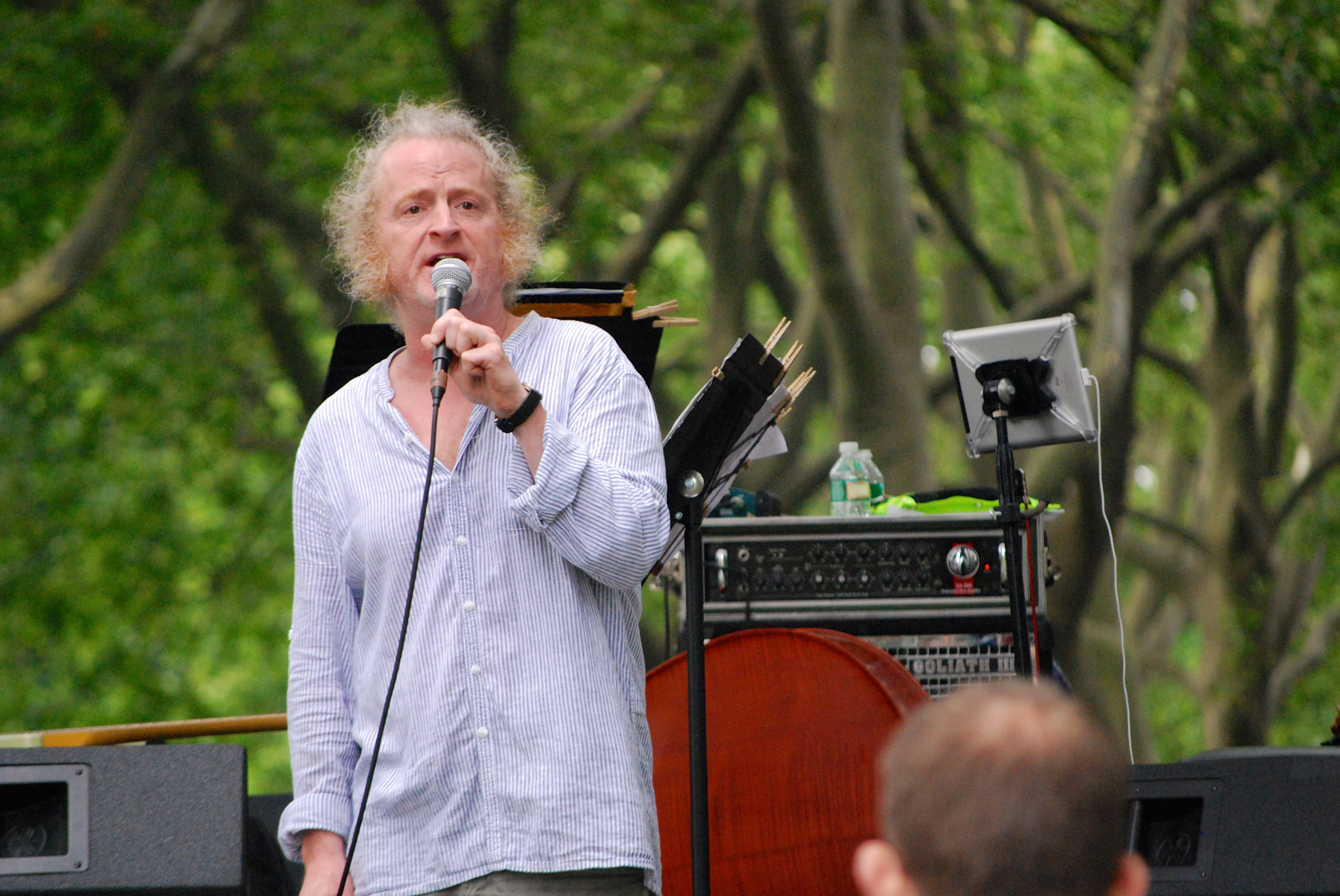 Mark Stewart (guitarist)